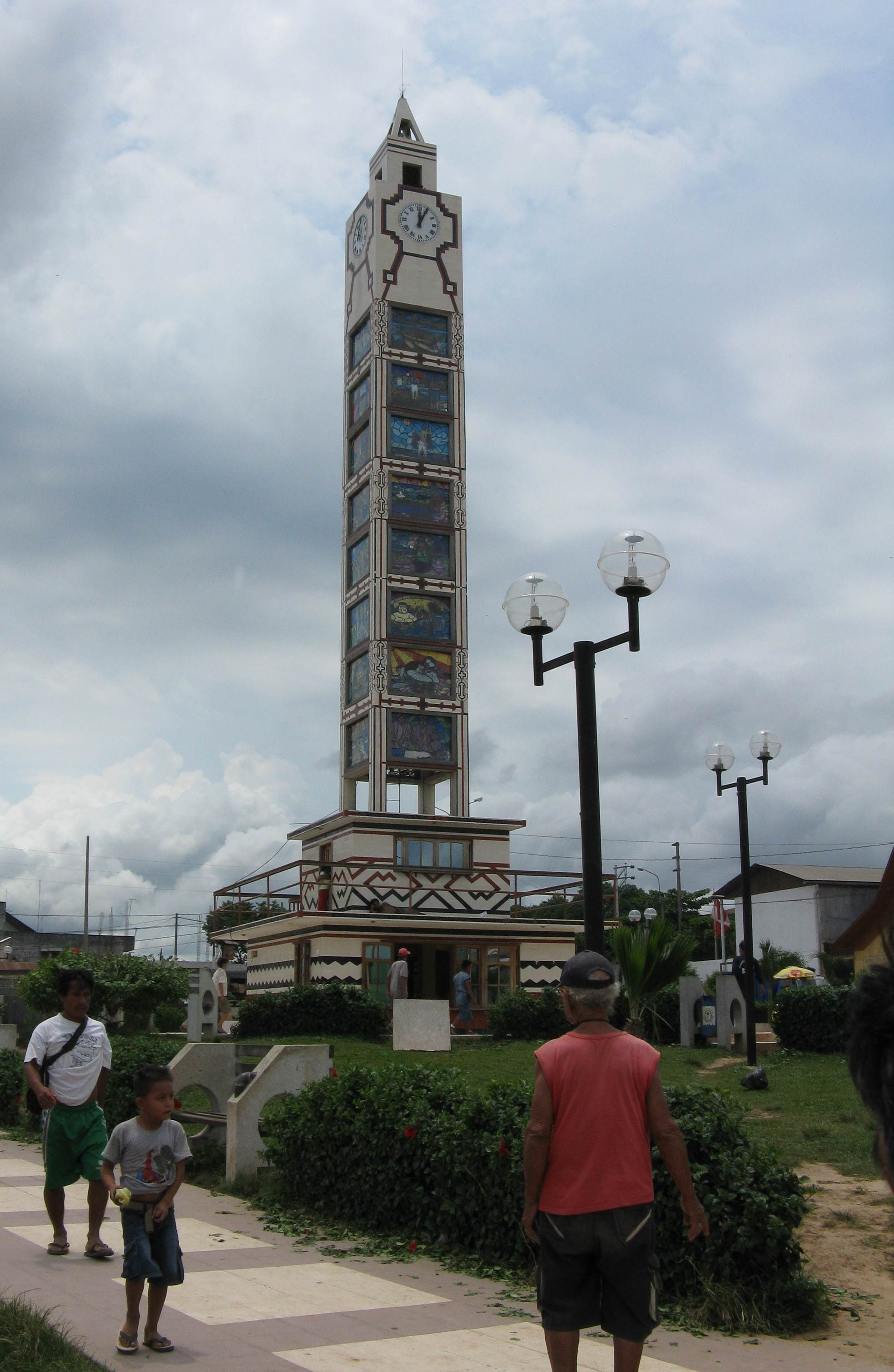 The Public Clock (Reloj público in spanish) tower and Plaza Grau — one of the attractions of Pucallpa. Located in the Plaza Grau, where the town initially started on the Ucayali River shore.